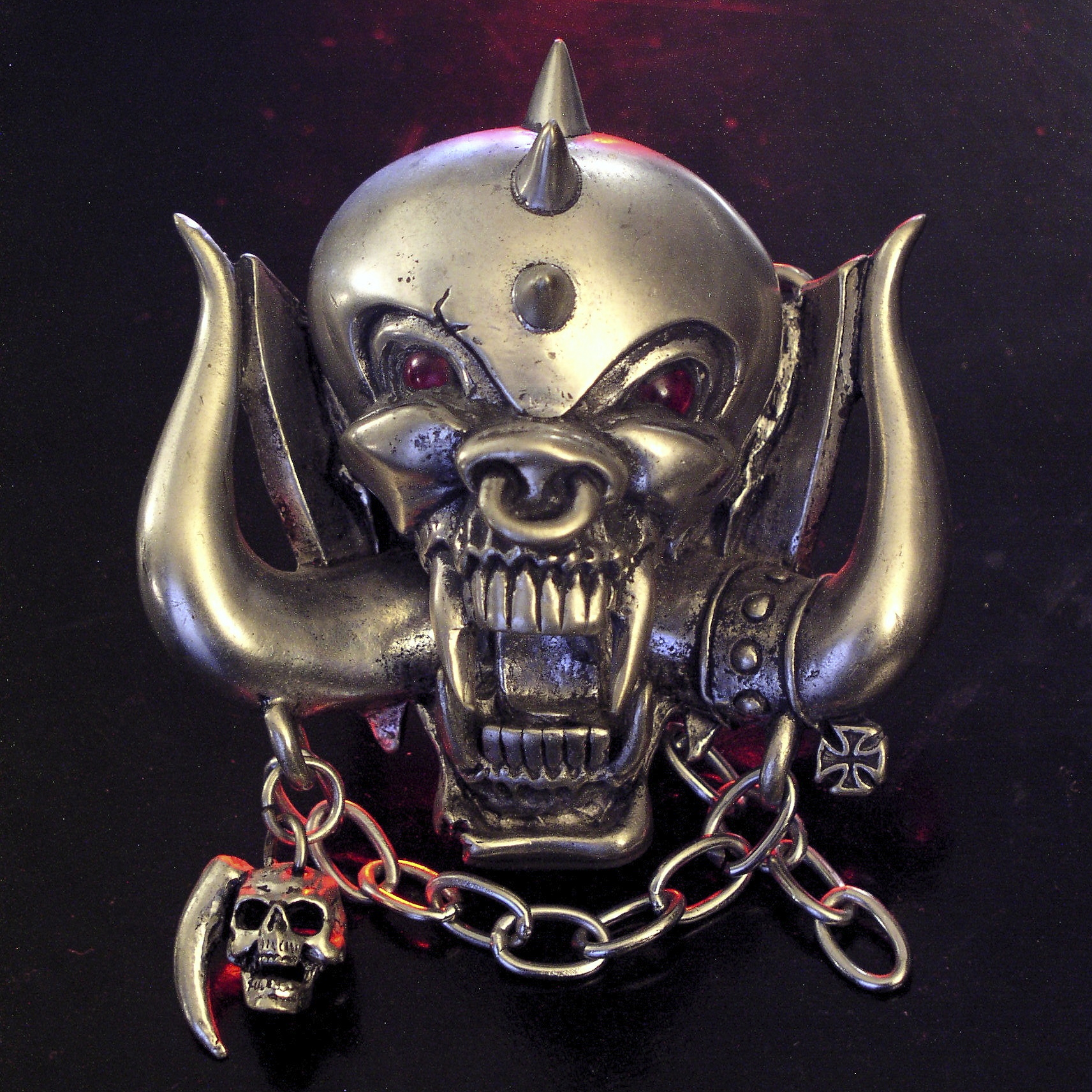 Die-cast belt buckle depicting Snaggletooth, mascot of English rock band Motörhead.